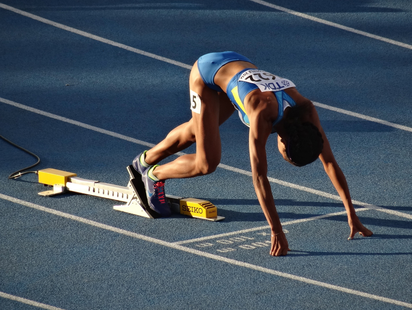 2016 IAAF World U20 Championships in Bydgoszcz, 400m women qualifications